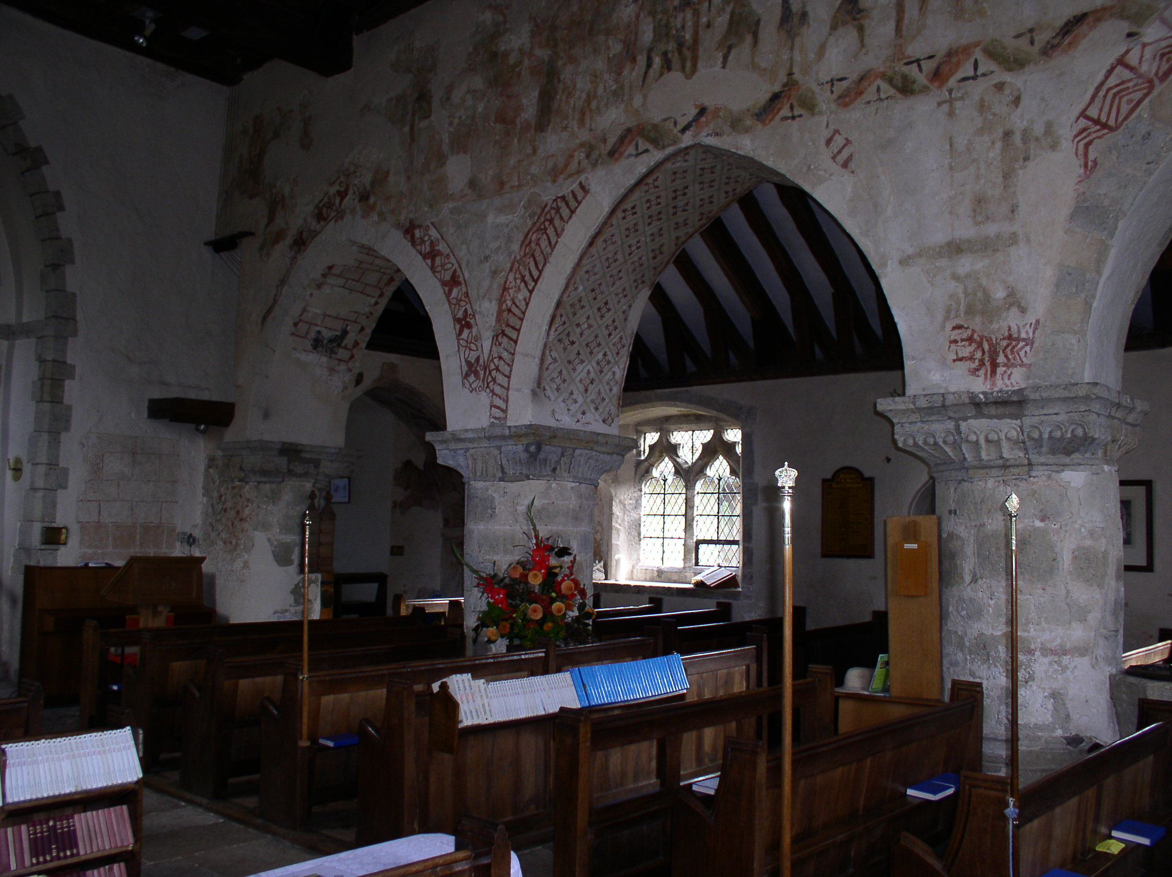 The nave and arcade in St Mary's Church, West Chiltington, West Sussex, England